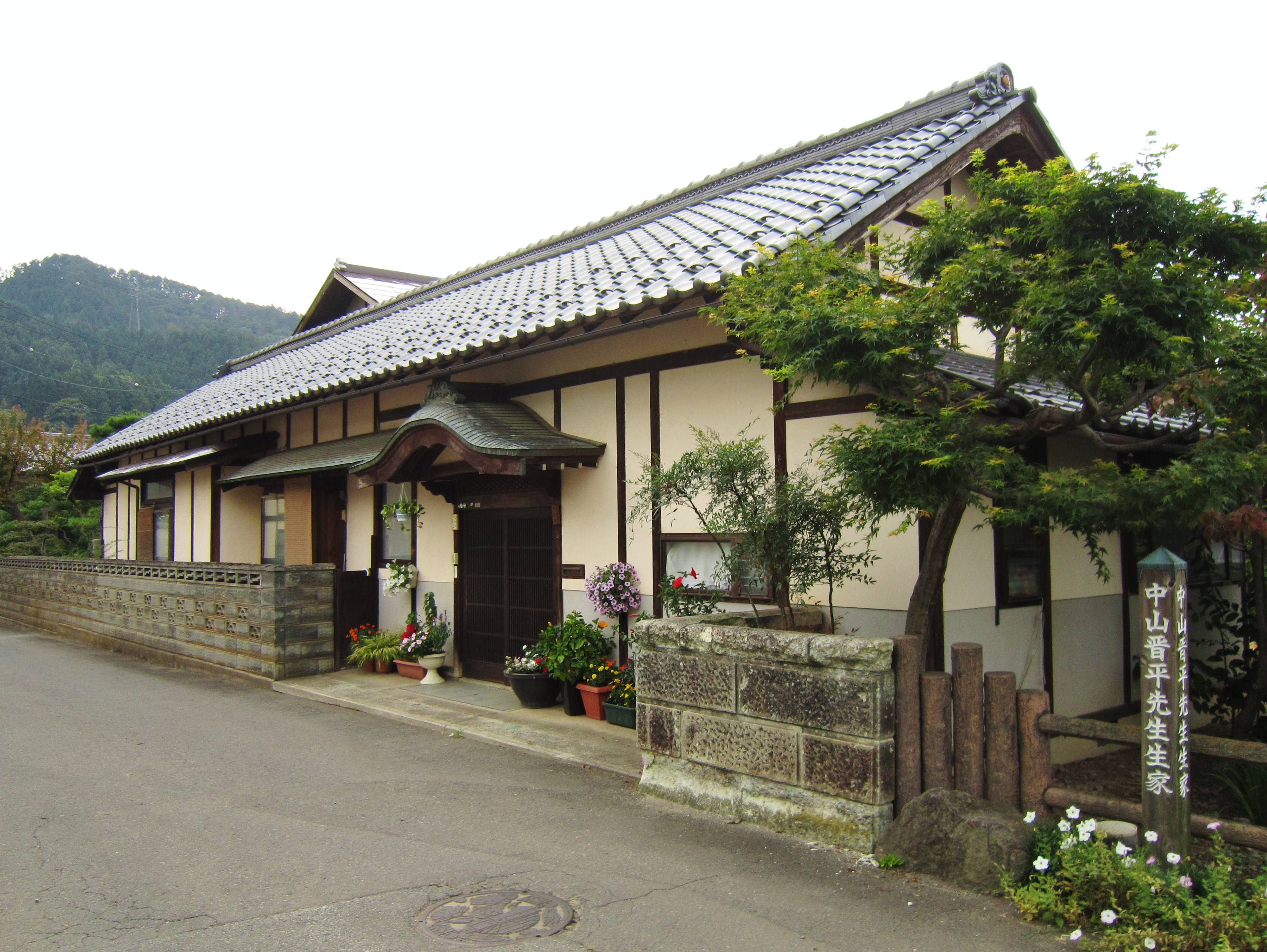 Nakayama Shinpei birthplace.